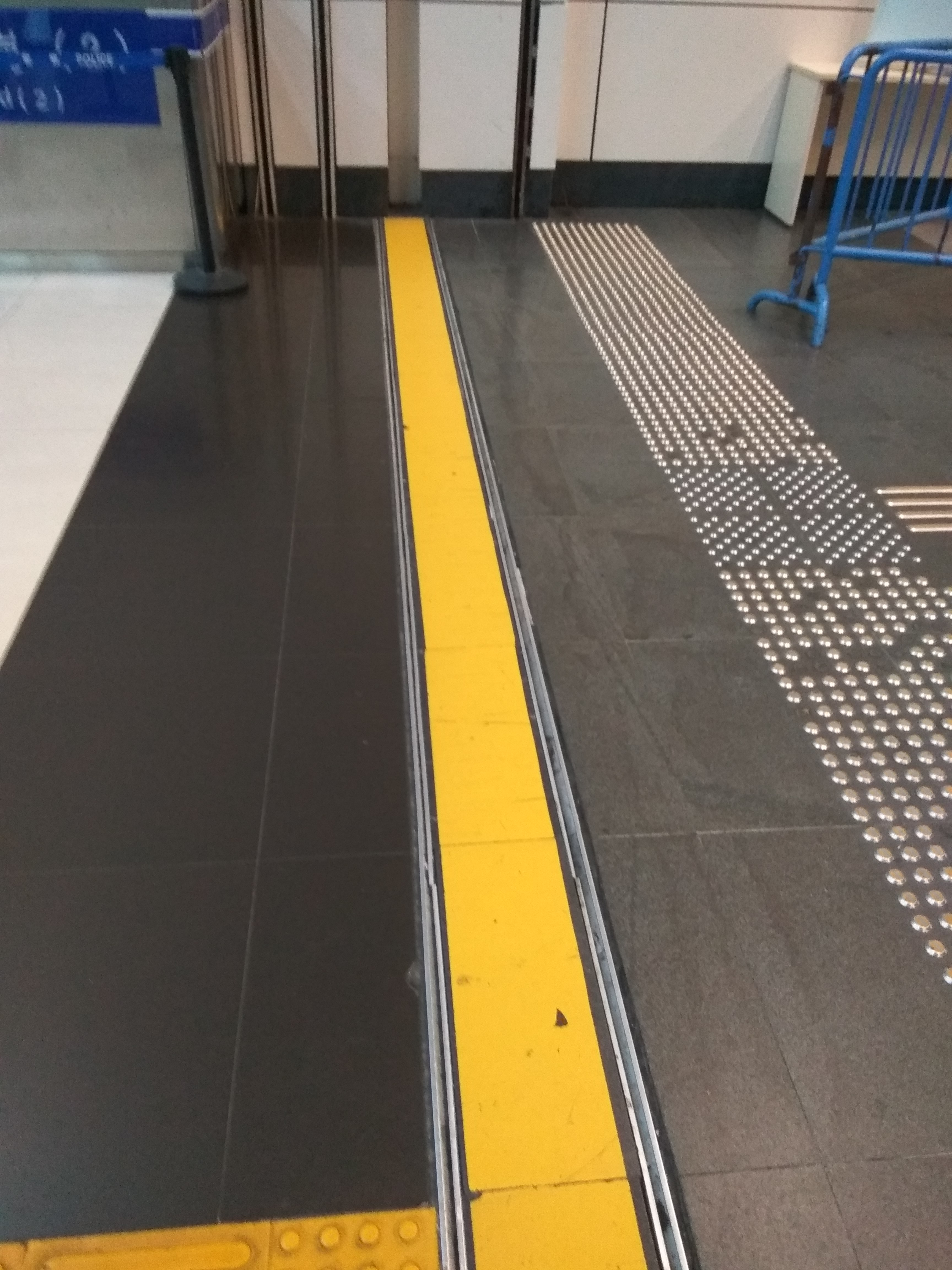 201611 Sino-HK border at Shenzhen Bay Port